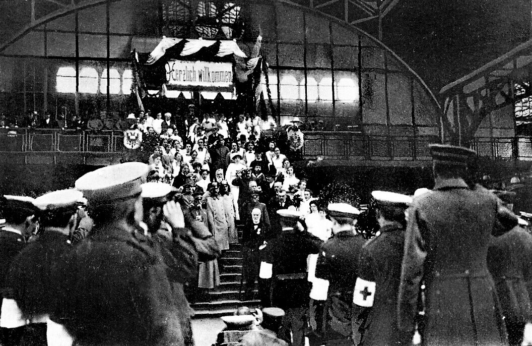 Arrival of the coming from Russian captivity exchange wounded on the Hauptbahnhof Lübeck on 2 September 1915. Address by the Mayor Herrmann Eschenburg